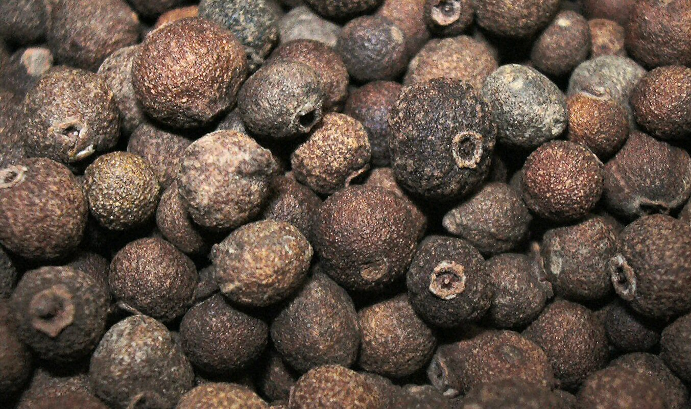 Jamaica pepper or Allspice